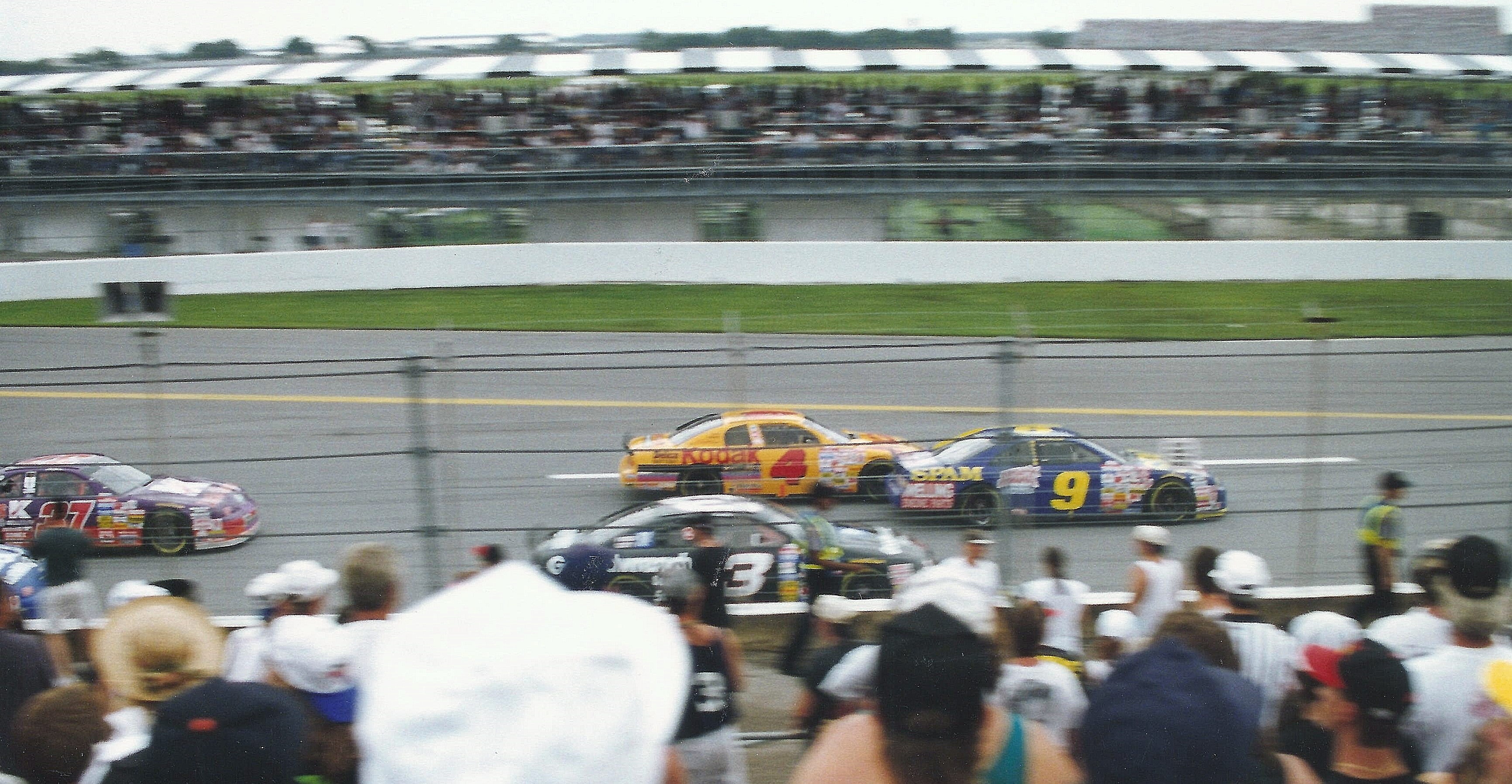 The 1996 Pepsi 400 at Daytona